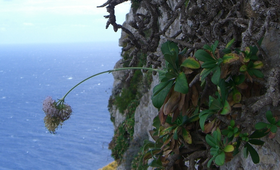 Pseudoscabiosa limonifolia, endemic plant of western Sicily and Egadi